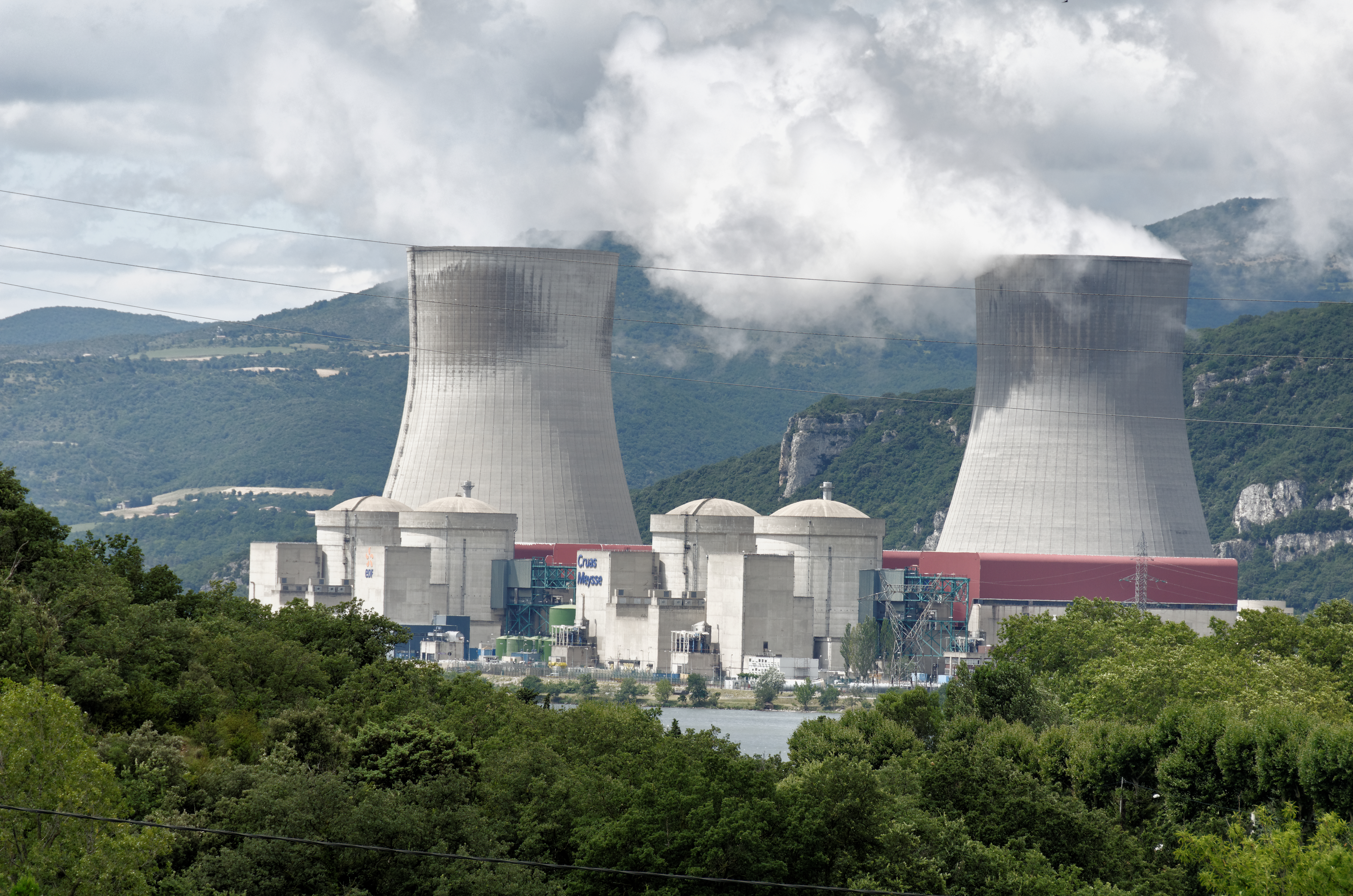 Cruas nuclear power plant (France)